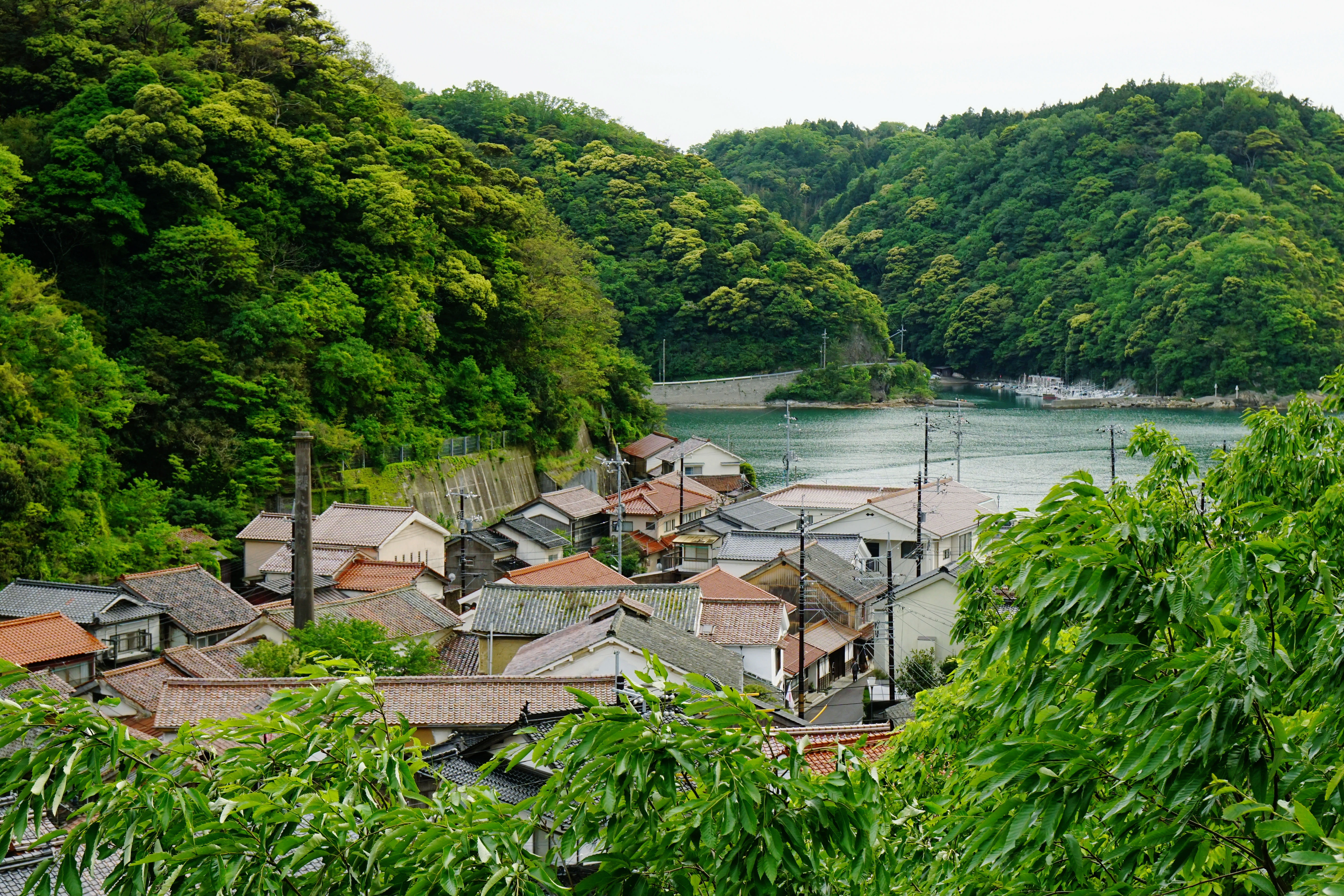 Yunotsu Onsen in Ōda, Shimane prefecture, Japan. It was registered as part of the UNESCO World Heritage Site "Iwami Ginzan Silver Mine and its Cultural Landscape".